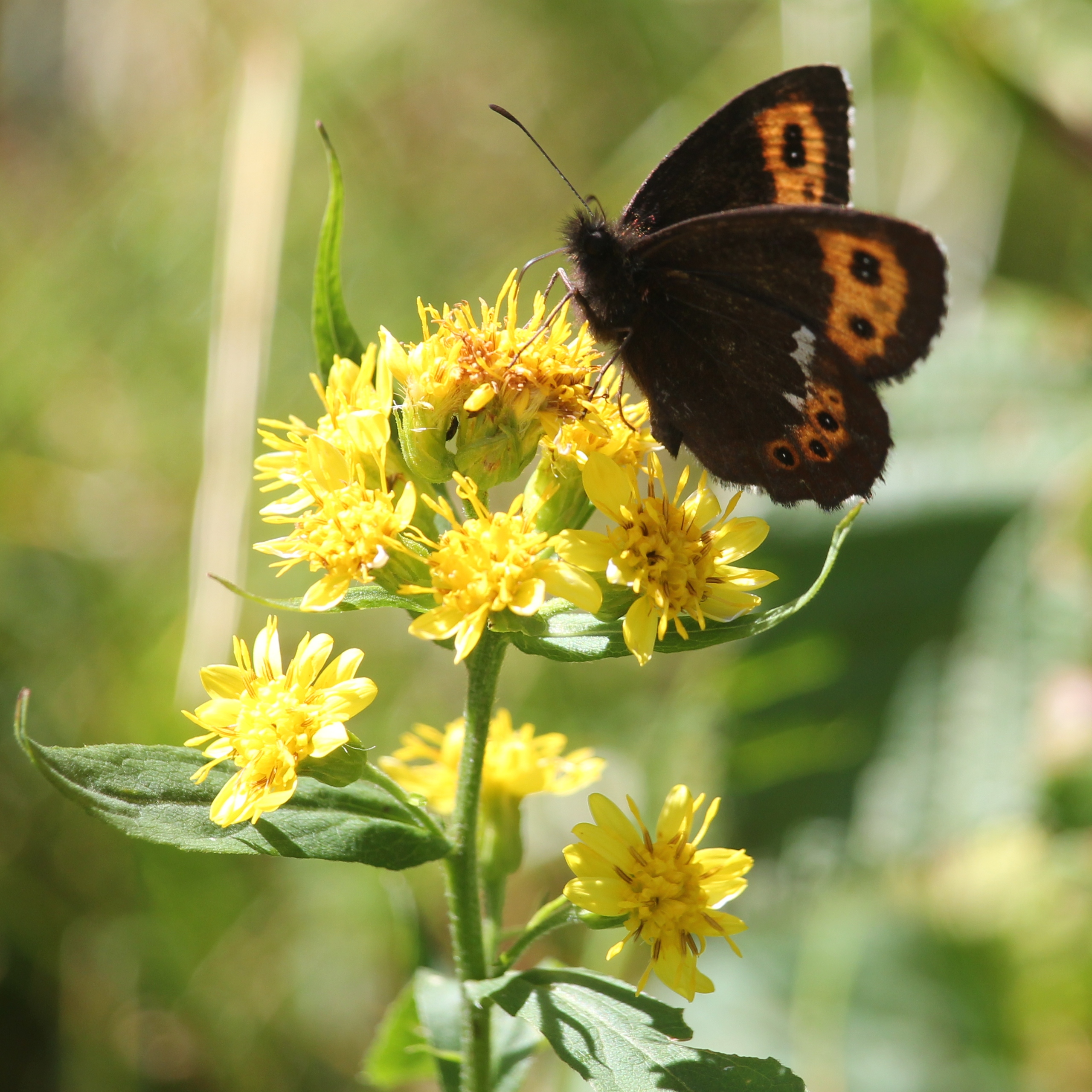 Erebia ligea takanonis on Solidago virgaurea subsp. leiocarpa in Mount Kisokoma, Kiso Mountains, Kiso Town, Nagano Prefecture, Japan.